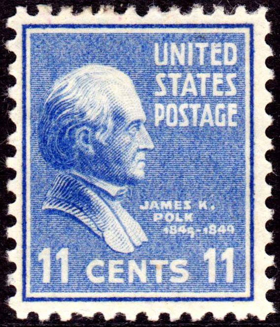 U.S. Postage Stamp: James K. Polk, Issue of 1938, 11c